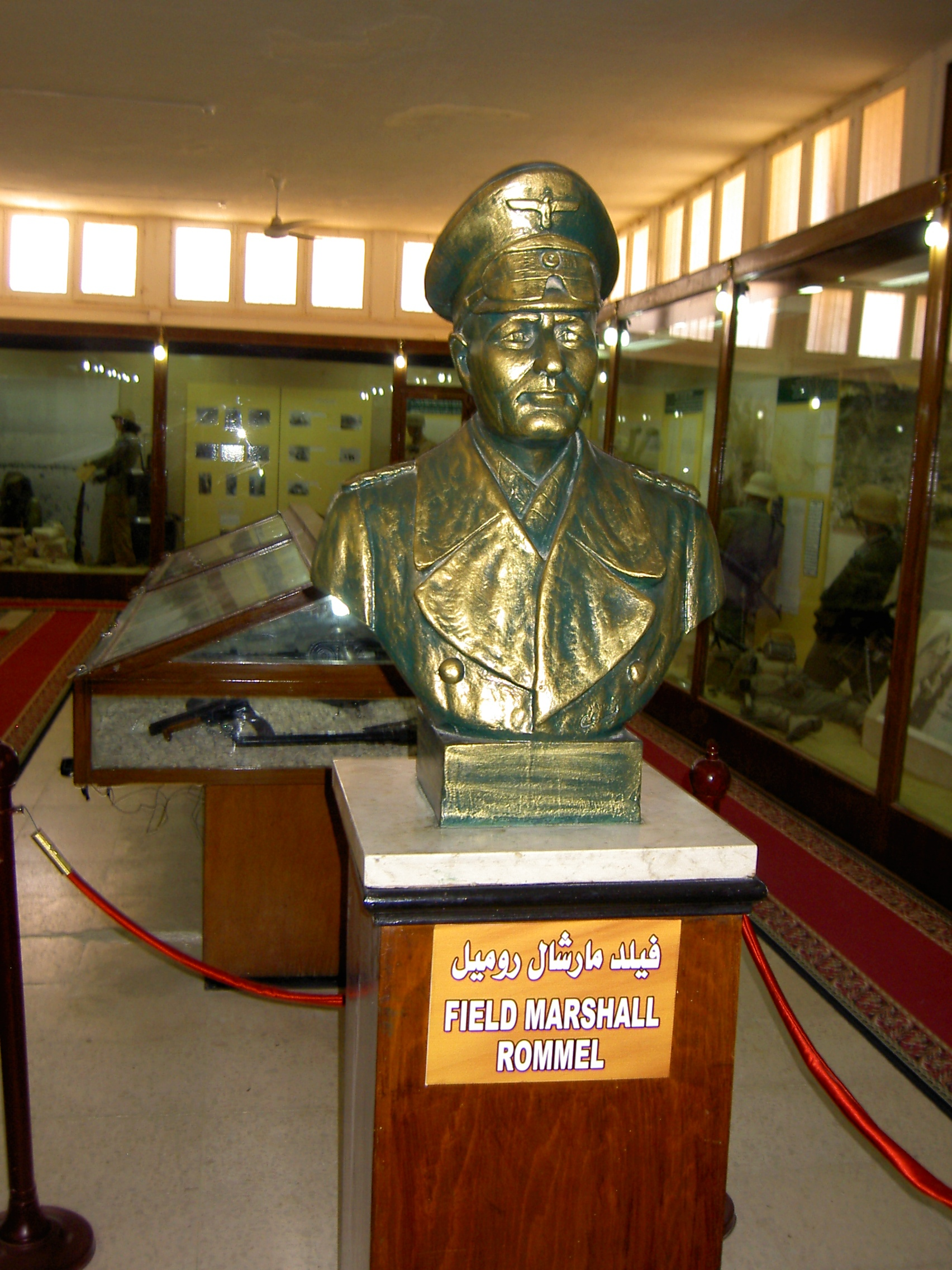 Generalfeldmarschall Erwin Rommel's bust in El Alamein War Museum (Egypt)